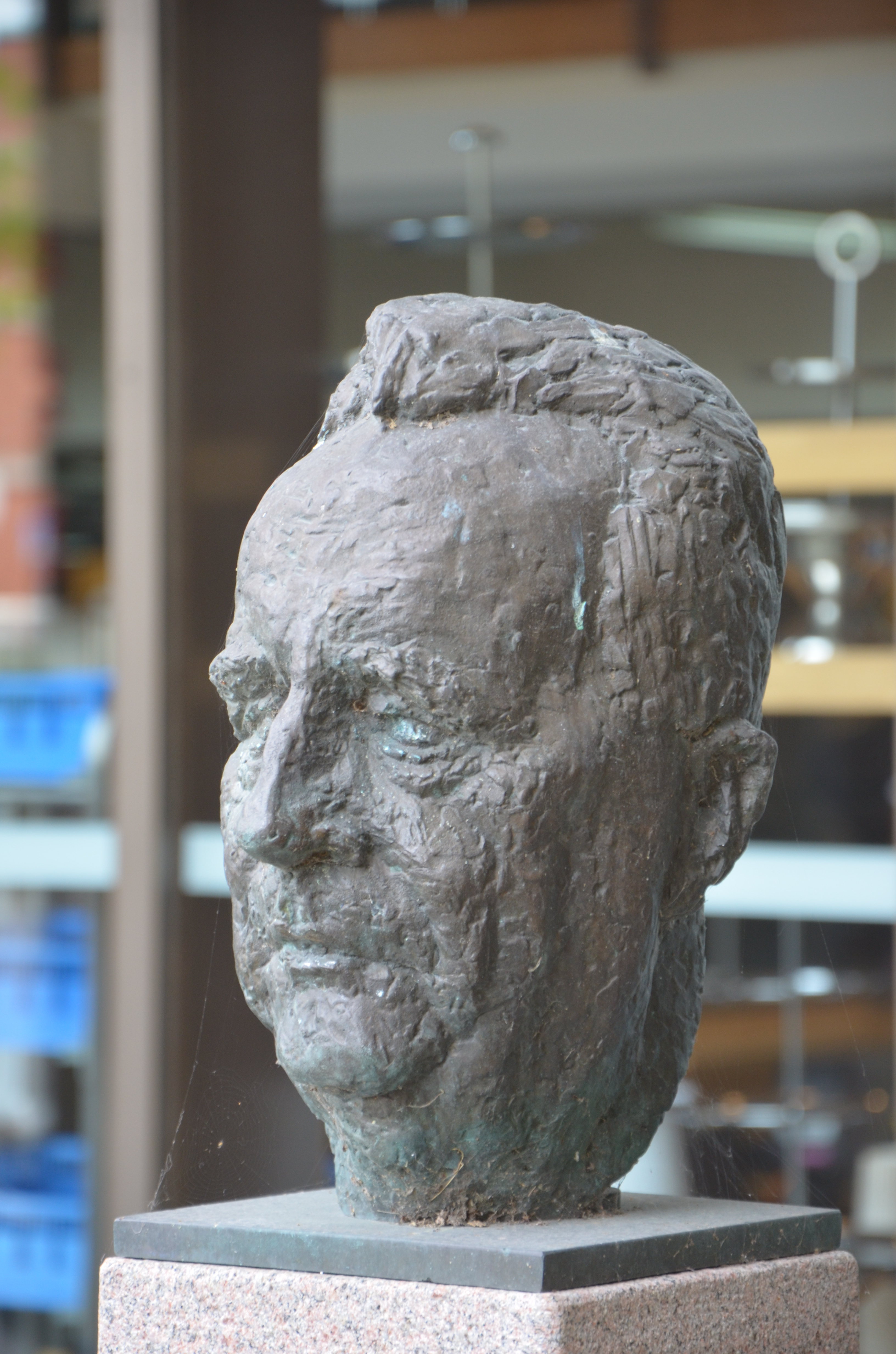 Bust of Torsten Andrée, outside Lund University Hospital